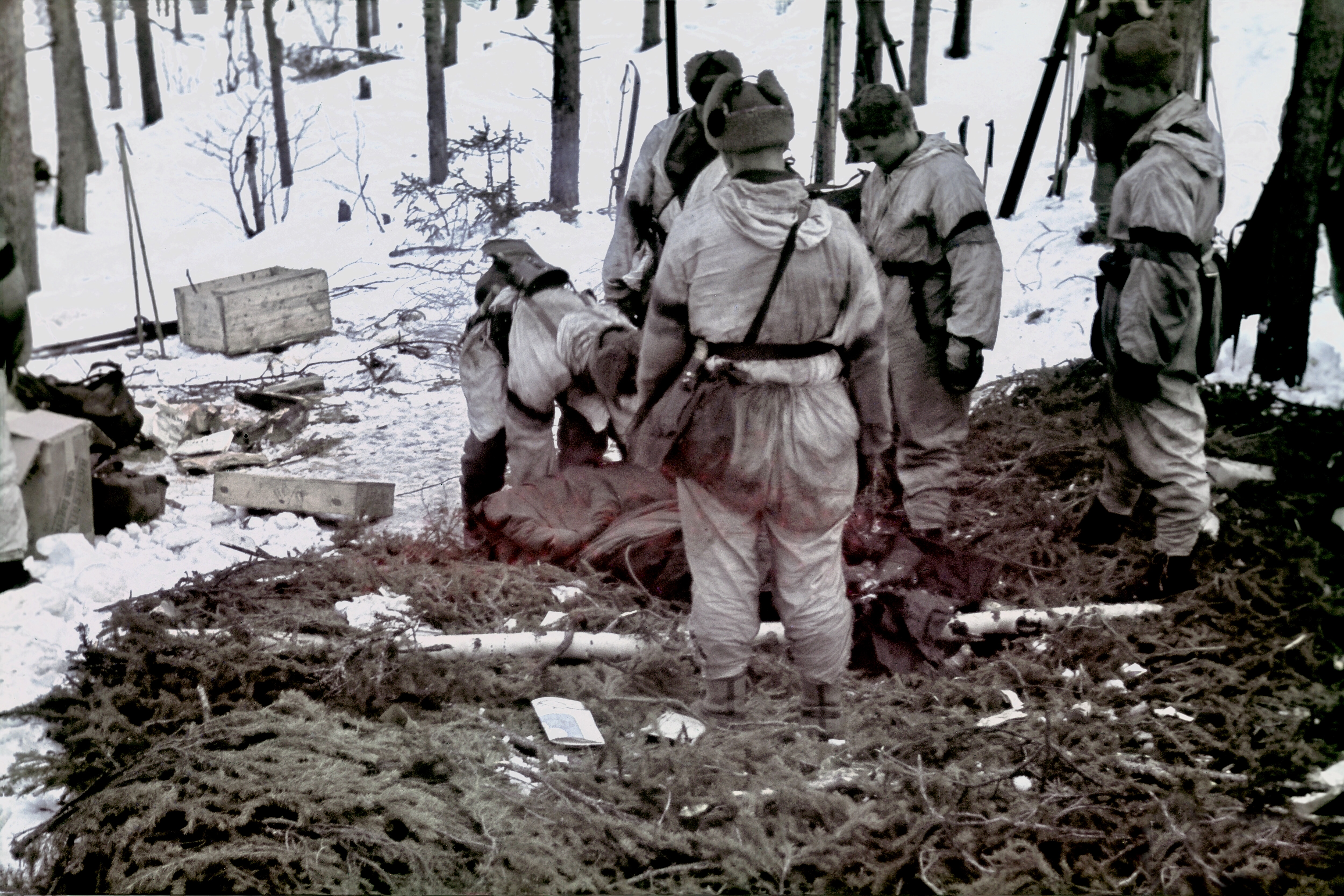 Breaking camp. Erillinen Osasto P (Detached Battalion 4. Detachment Paatsalo). Petsamo, Kukkesjaur 4/13/1942.